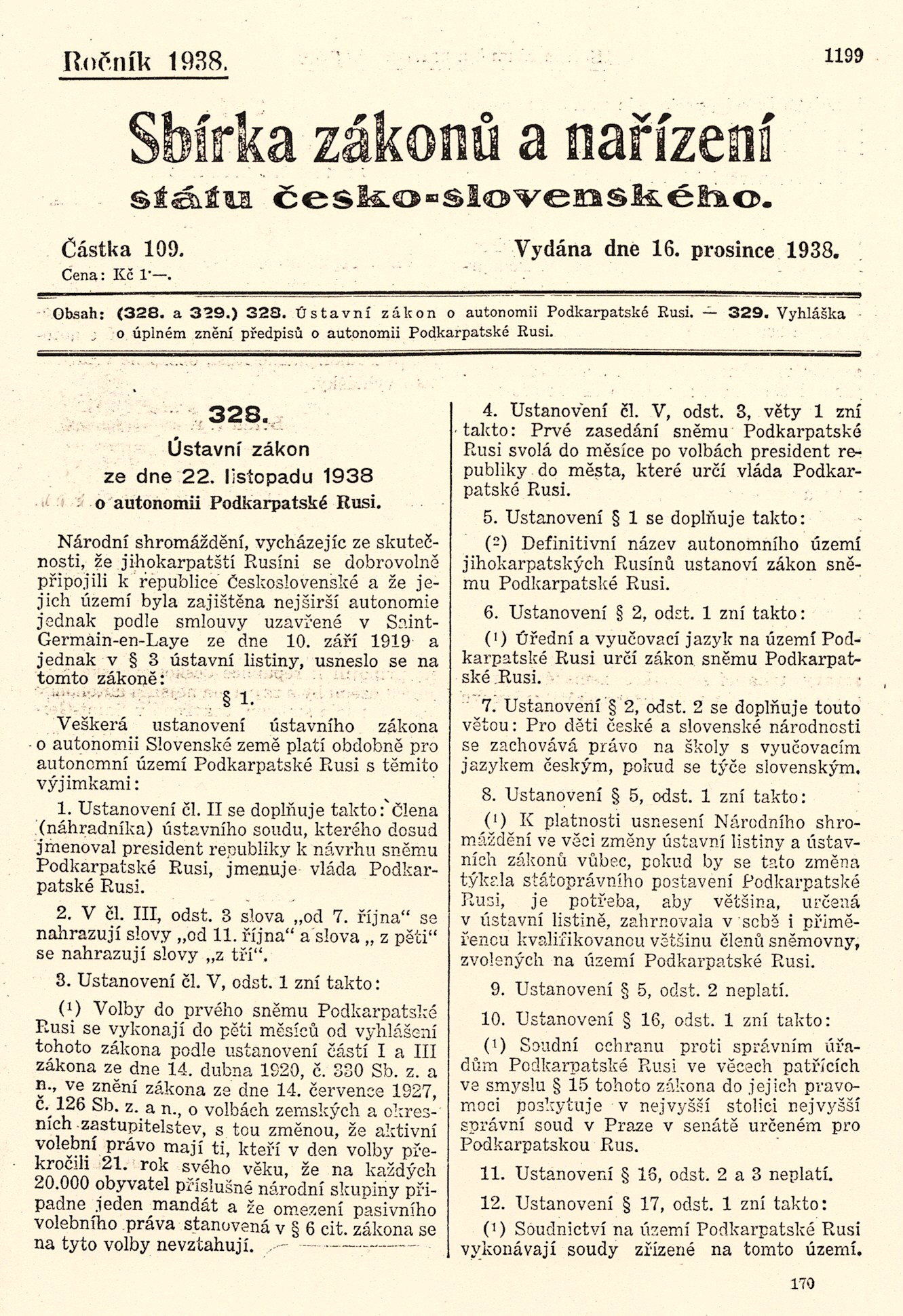 Czecho-slovak Collection of Laws and Regulations' official issue with the constitutional act No. 328/1938 Coll. (Autonomy of Subcarpathian Rus)